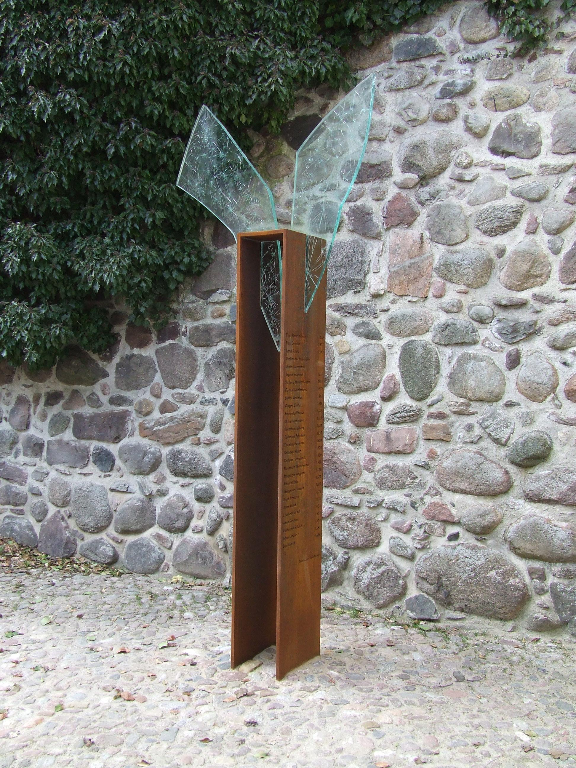 Memorial of the witches in Bernau bei Berlin with the names of the women that have been accused of witchery according to the town chronicle of Tobias Seiler. See also Image:Bernau Hexen1.jpg and Image:Bernau Hexen2.JPG for detailed view.